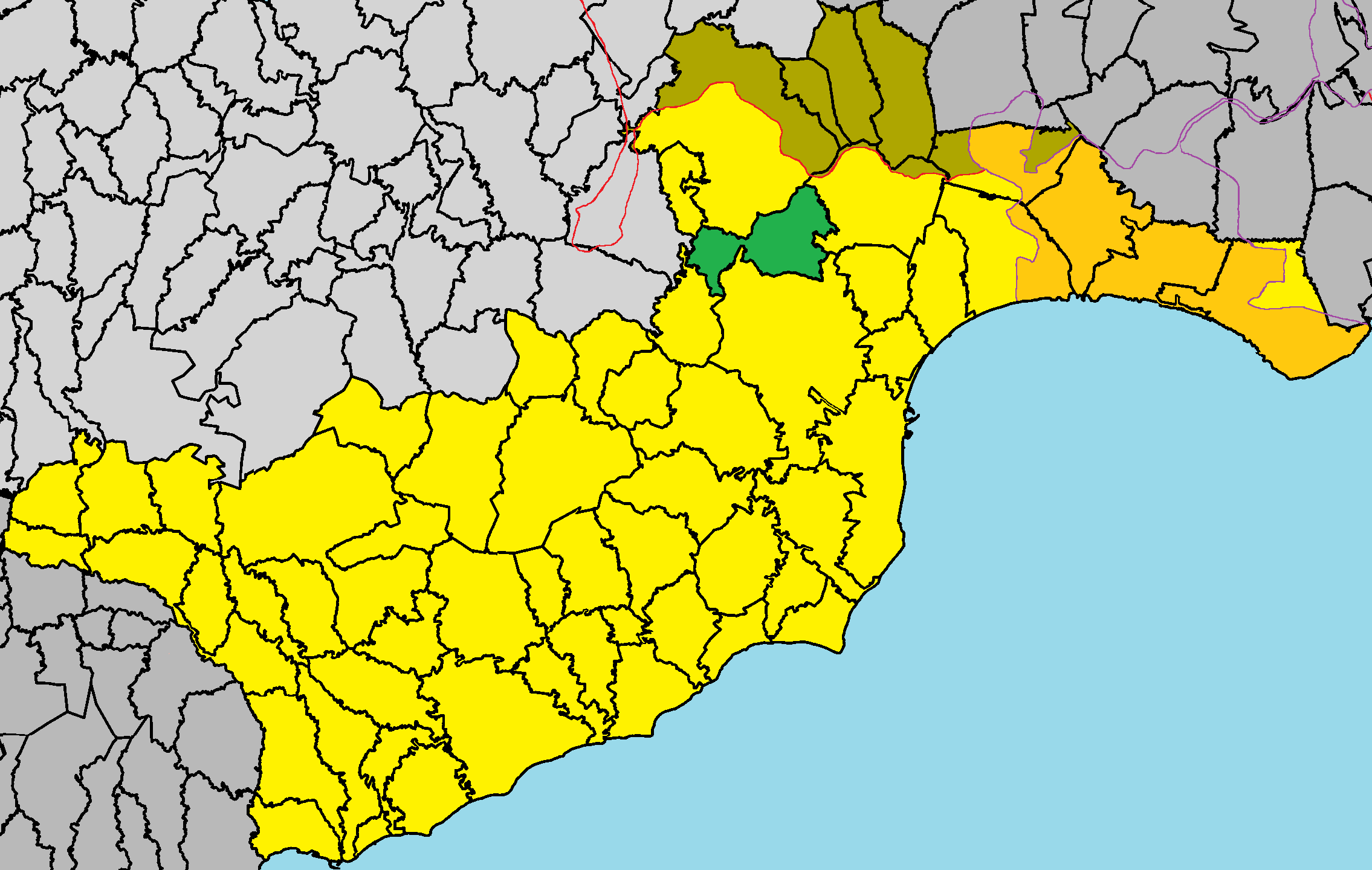 Avdellero in Larnaca District.